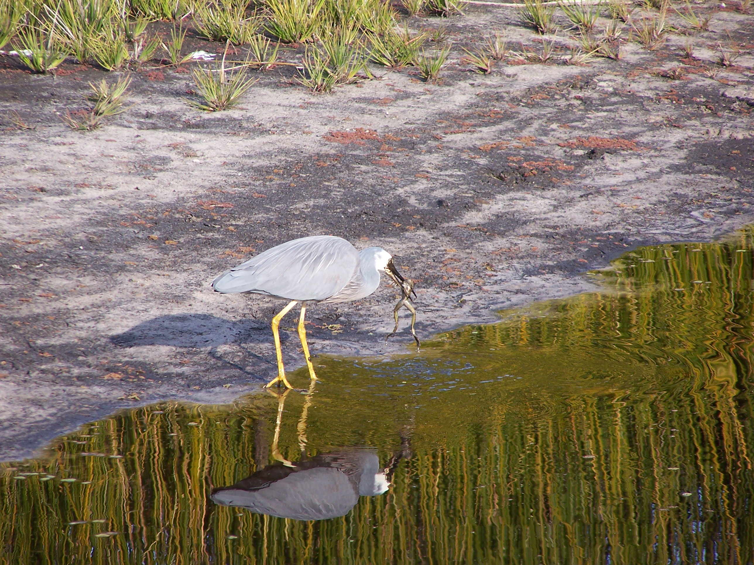 White Faced Heron (Egretta novaehollandiae), with frog taken in the suburb of Southern River, Perth Western Australia